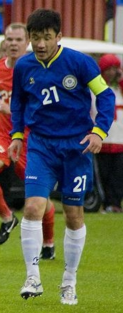 Nurbol Zhumaskaliyev in action for Kazakhstan national football team